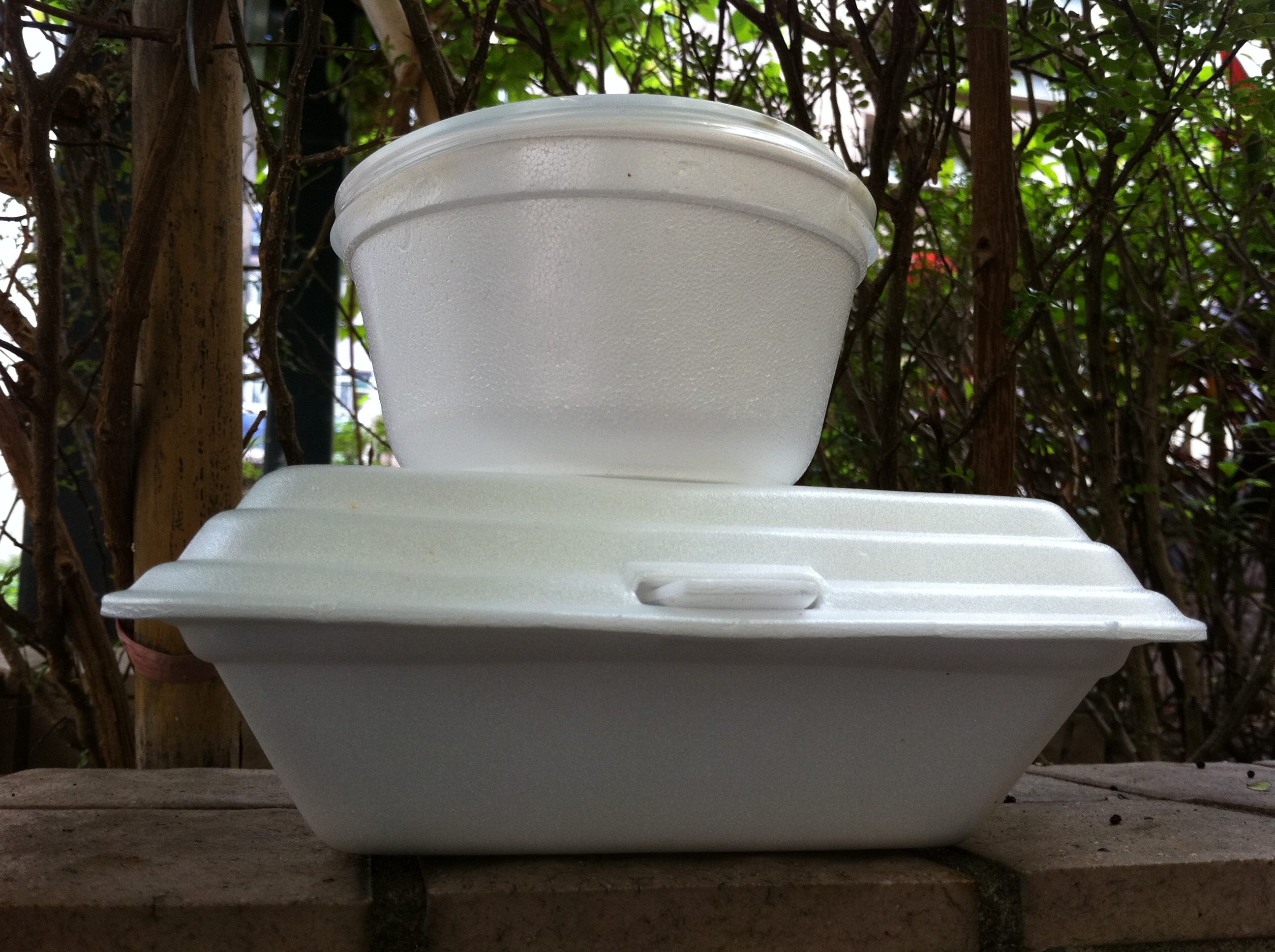 一頓午餐之見, a lunch box in Shanghai Street, Hong Kong